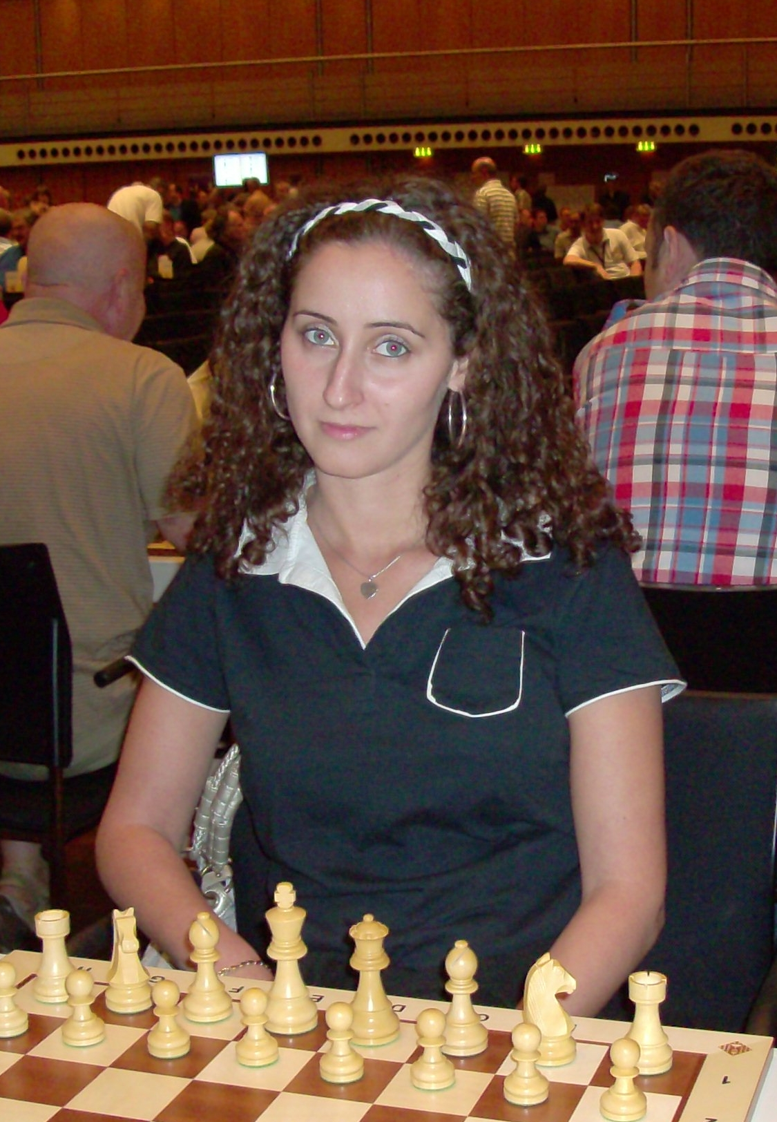 Anita Gara, chess player from Hungary